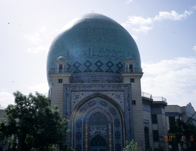 Hoseiniyeh Ershad, facing Shariati Ave, Tehran Iran